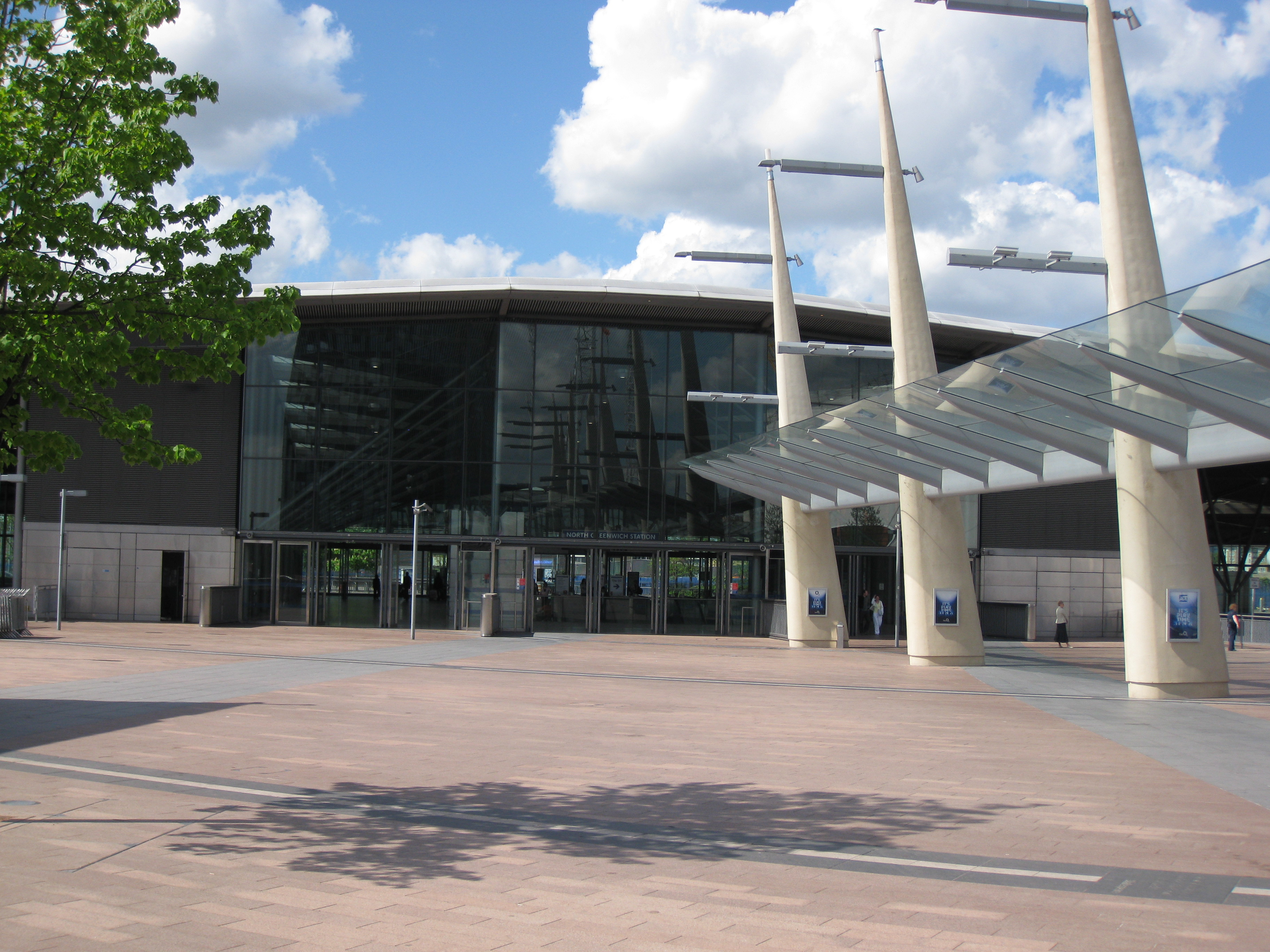 North Greenwich tube station from Peninsula Square